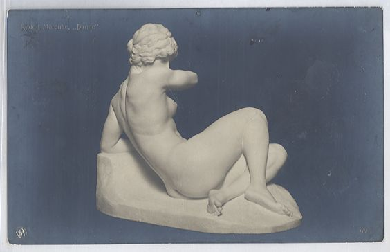 Rudolf Marcuse: Danae